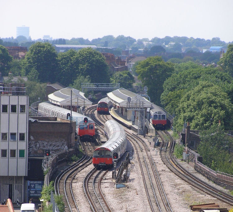 Ravenscourt Park tube station as taken from the residential block above the King's Mall Shopping Centre